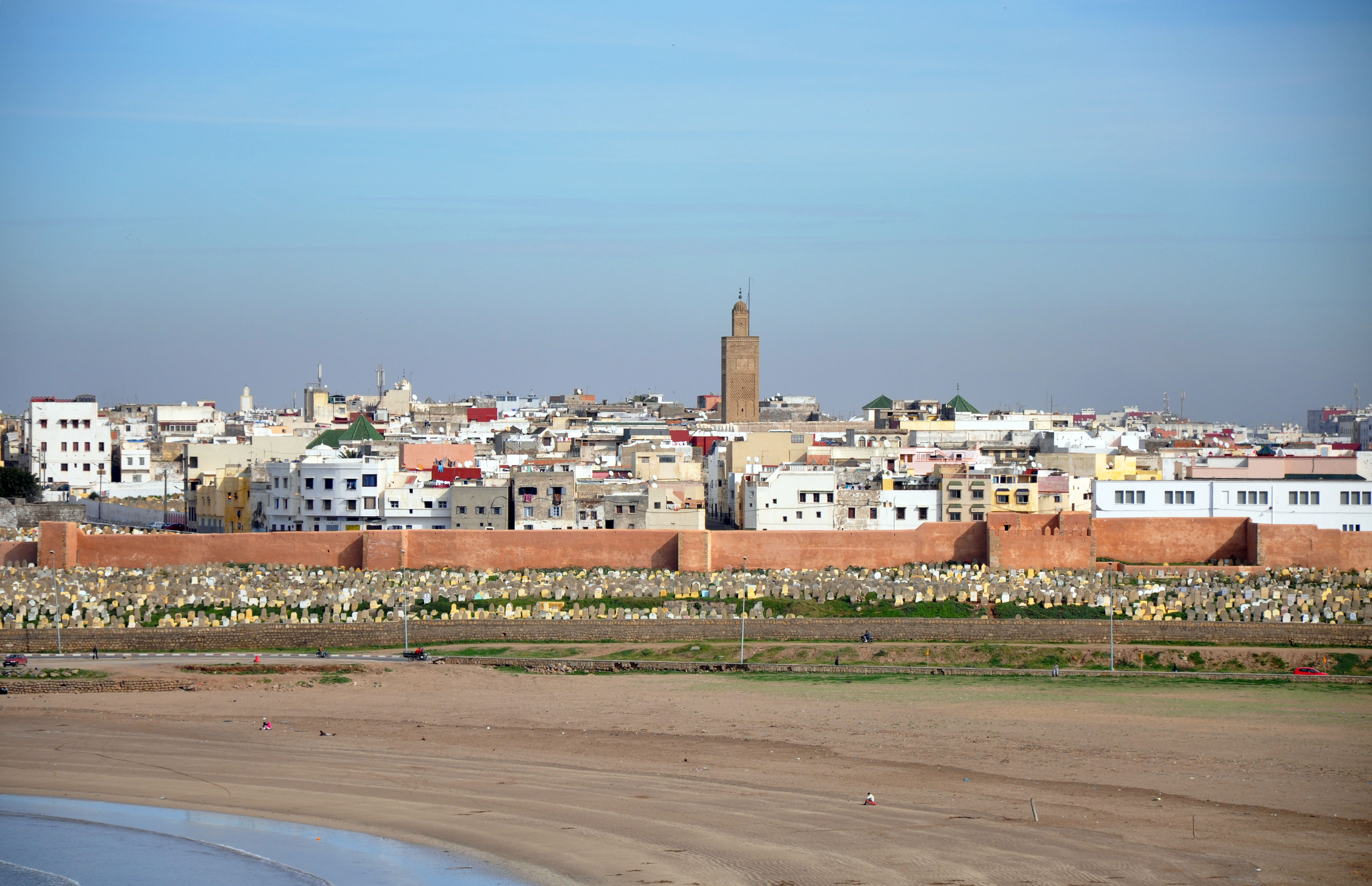 Salé (Berber: Sla / Sala, Arabic: سلا; from the Berber word asla, meaning "rock") is a city in north west of Morocco. It is also the oldest city in the atlantic coast, as it was founded by the phoenicians and was known back then as Sala (modern challah); it was completed since then from the other side of the river of bou regreg by the Banu Ifran dynasty. During the 17th century, Rabat was known as New Salé, or Salé la neuve (in French) which explains Salé as the oldest city on the river. Today it is home to approximately 800,000 people, mostly impoverished factory workers. It was once a self-contained, self-ruled Republic with international scope, situated on the mouth of the Bou Regreg river on the Atlantic coast. The city's name is sometimes transliterated as Salli or Sallee. The National Route 6 connects it to Fes and Meknes in the east, eventually leading to Maghnia, Algeria